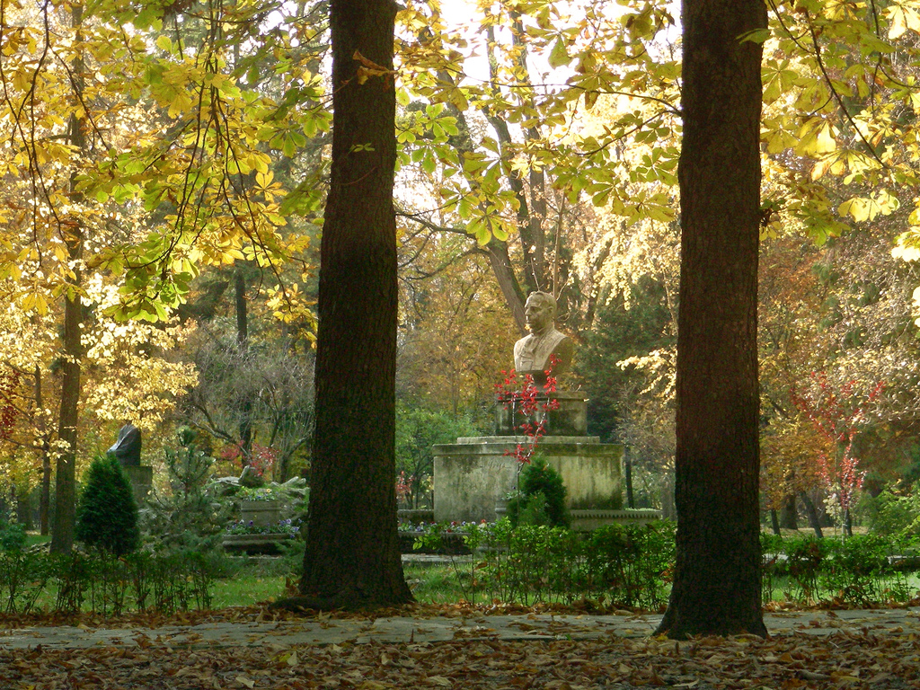 Old chestnut trees in Cluj city's main park, autumn 2007. Background: statue of Romanian poet Octavian Goga.